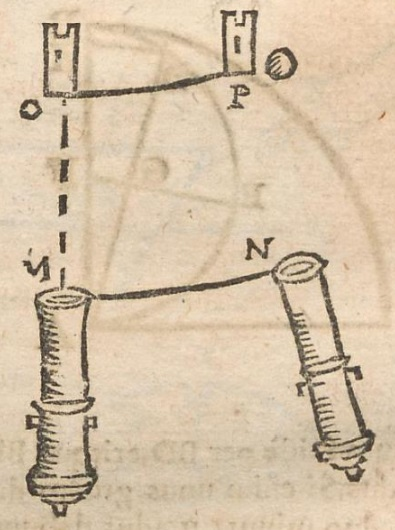 Image of a Cannon on a rotating Earth showing Coriolis deflection of the ball to the right of its target.